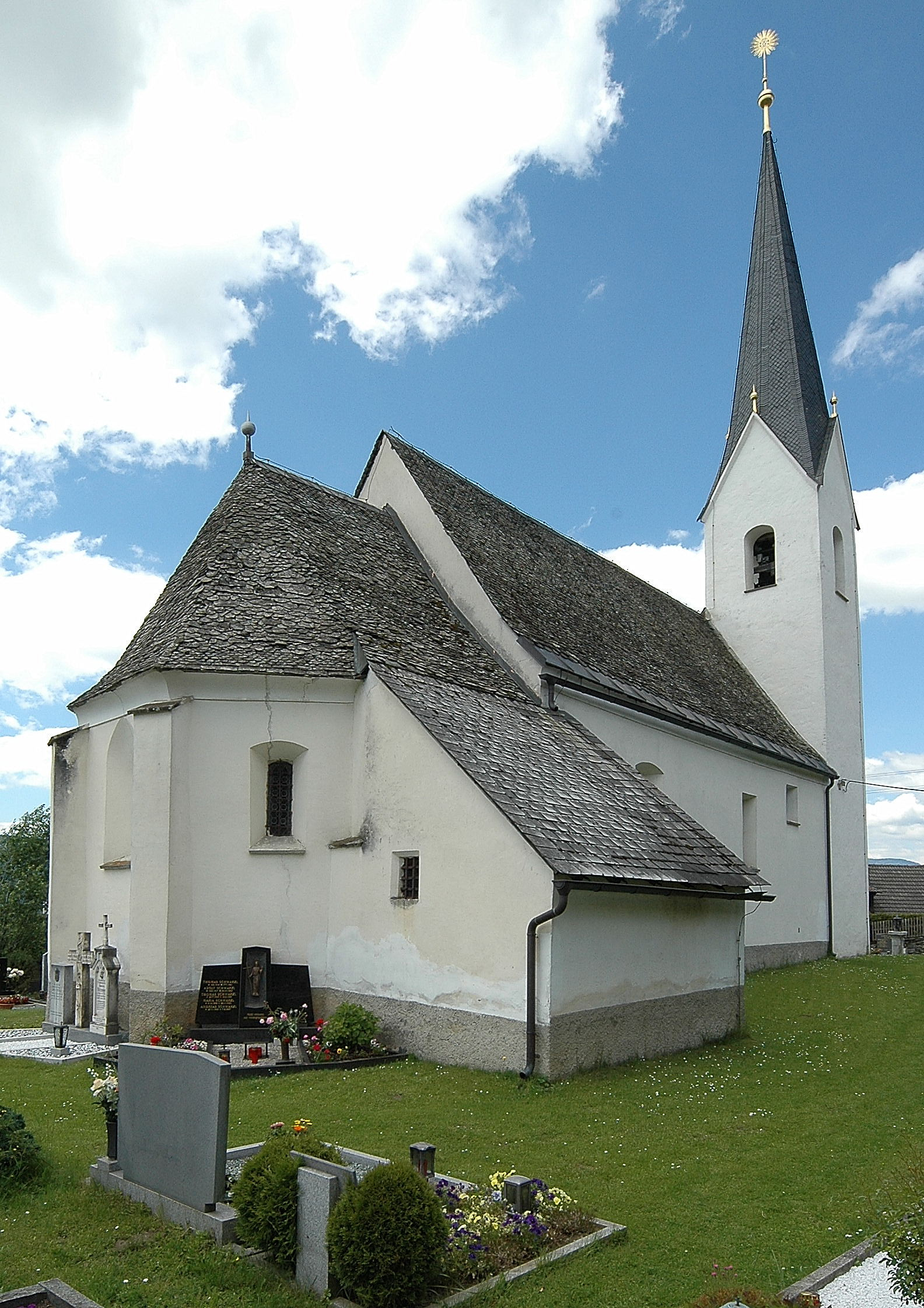 Parish church Holy Veit (and Saint Martin) at Klein St. Veit, municipality Feldkirchen, district of Feldkirchen, Carinthia / Austria / EU